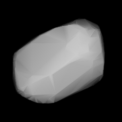 3D convex shape model of 4959 Niinoama, computed using light curve inversion techniques. J. Hanuš, J. Ďurech, M. Brož, B. D. Warner (June 2011). "A study of asteroid pole-latitude distribution based on an extended set of shape models derived by the lightcurve inversion method". Astronomy and Astrophysics 530: A134. ISSN 0004-6361. arXiv